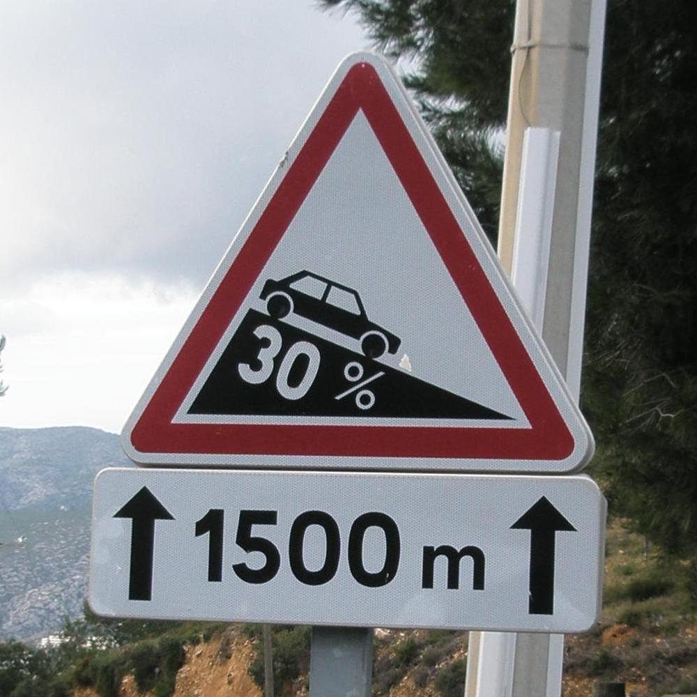 Road sign, 30% slope.